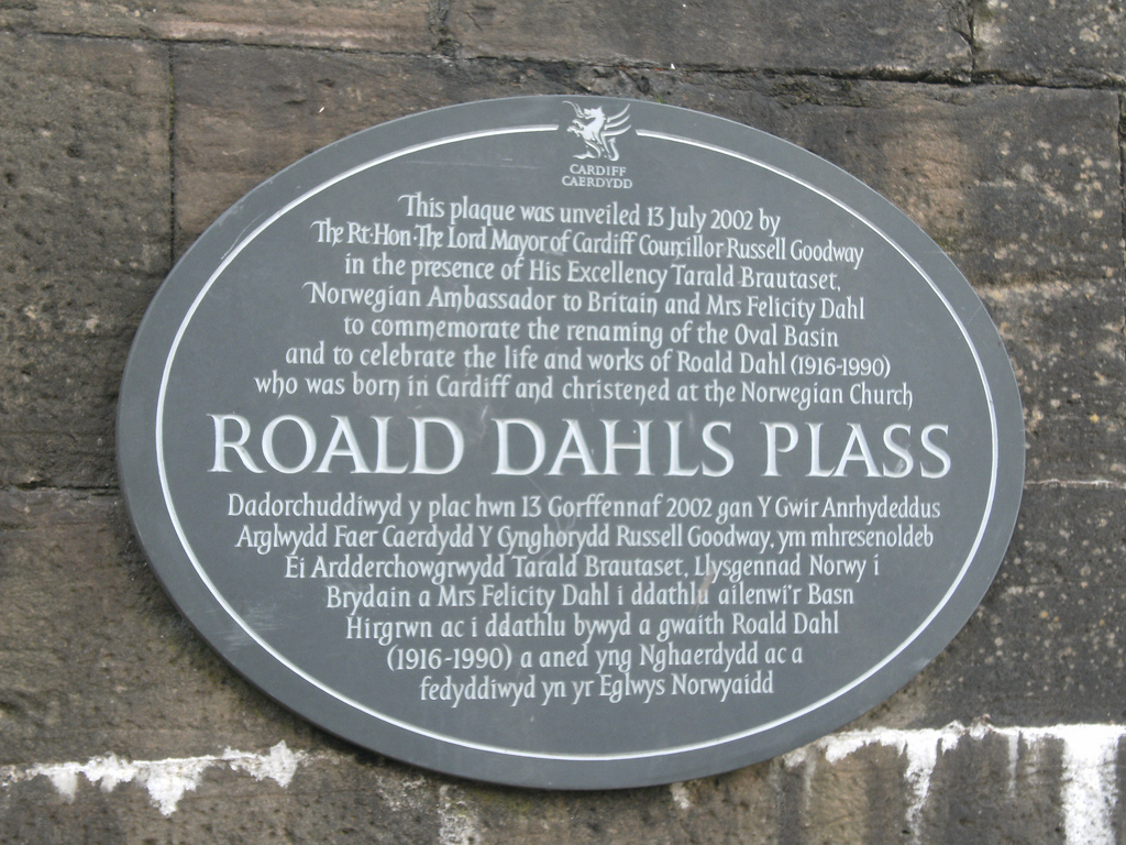 Roald Dahls Plass plaque, Cardiff Bay, Cardiff, Wales.